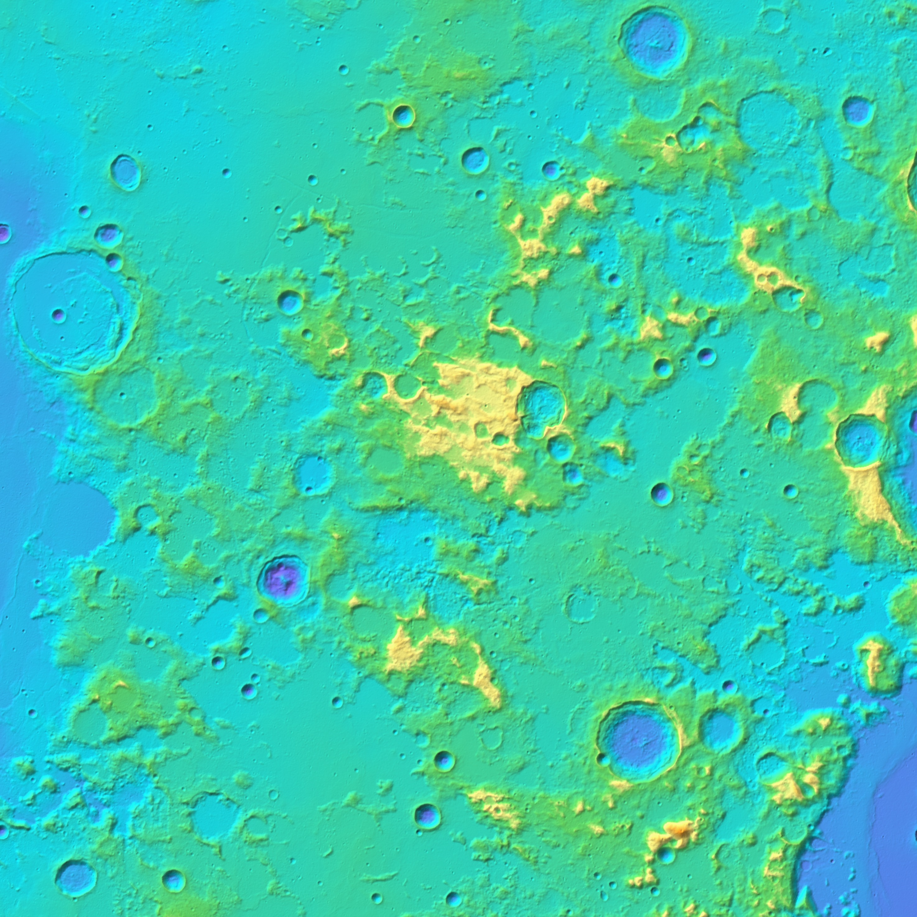 Montes Taurus on the Moon, to the east from Mare Serenitatis. Topographic map (color shaded relief), based on Global Lunar DTM 100 m topographic model (GLD100), which is based on data acquired by Lunar Reconnaissance Orbiter. Size of the image is 700×700 km, north is up. The image has the same span and resolution as a photomosaic Montes Taurus (LRO).png.